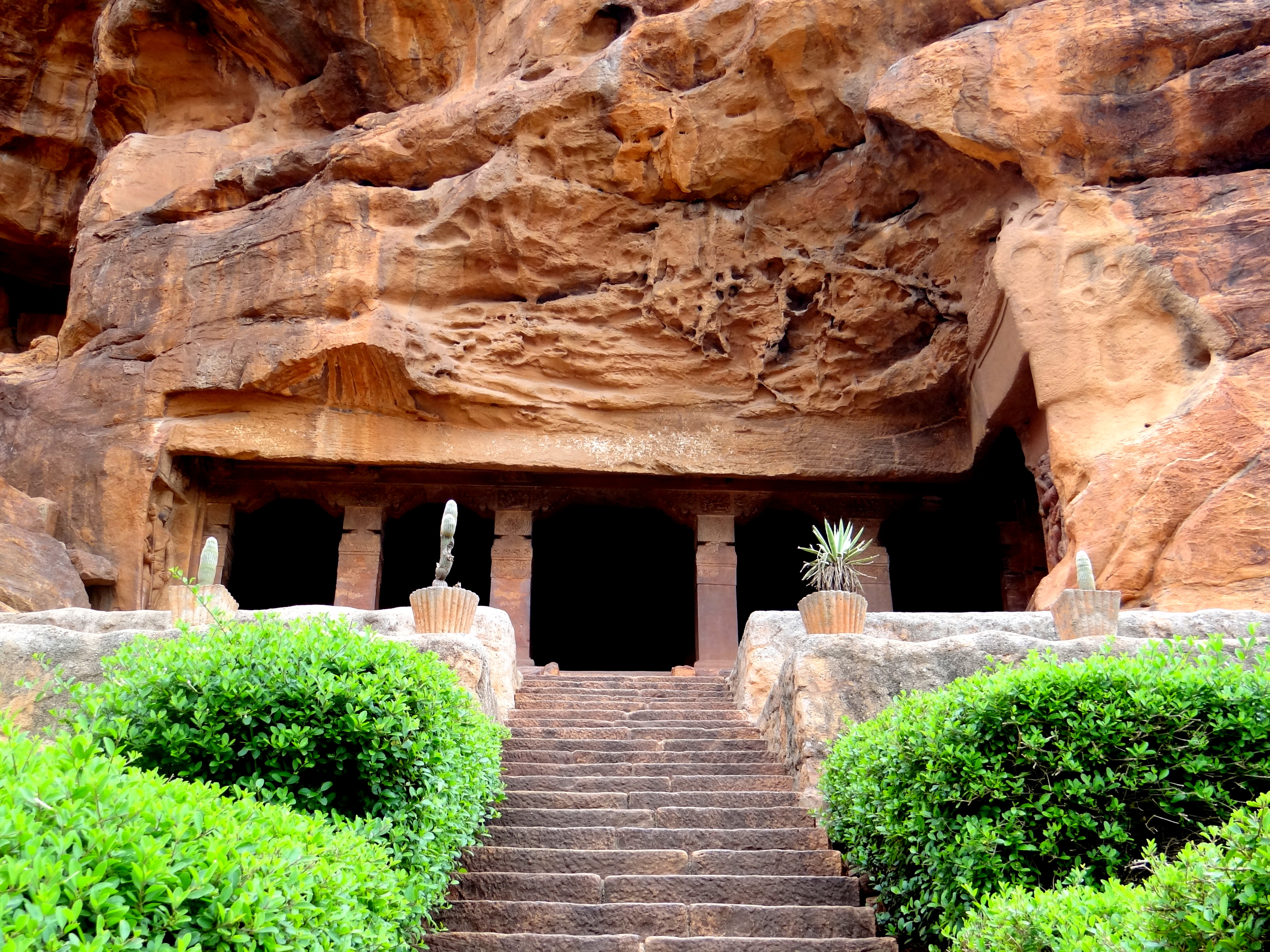 Jaina & Vaishnava caves